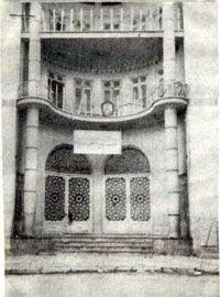 Al Hussainiya Al Haydaria in Karbala